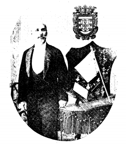 José Suárez de Urbina